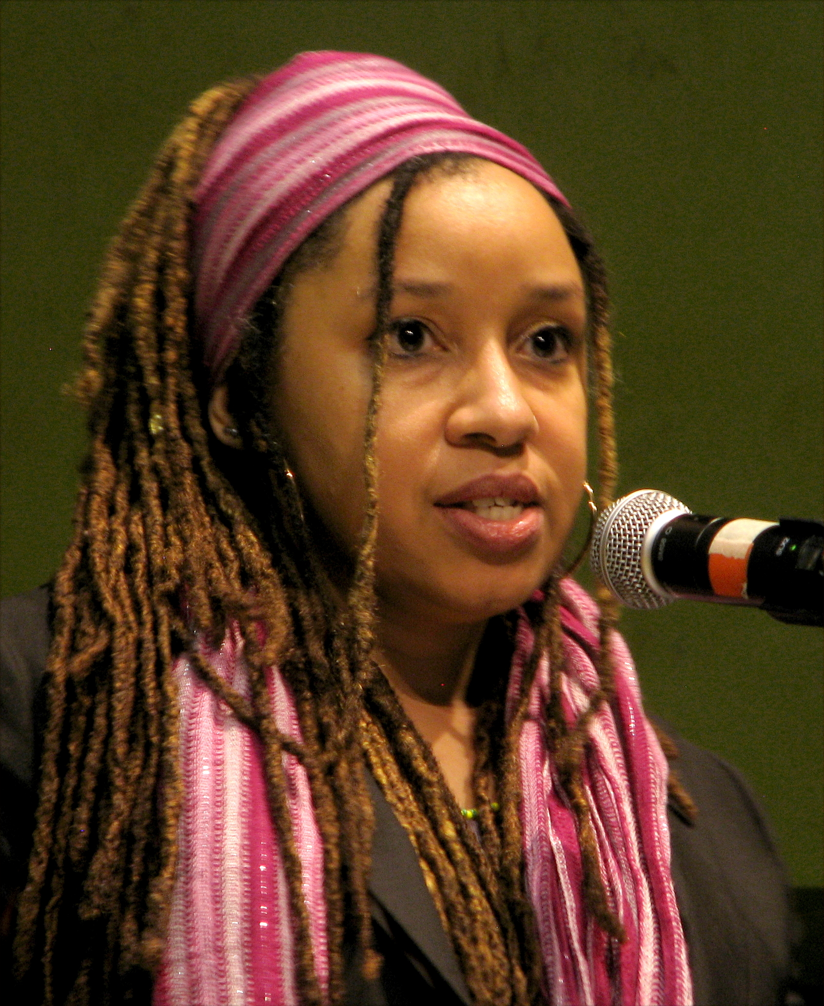 Speaking at the Waterloo Region wide All Candidates Event at THE MUSEUM: Cultural Exchange 6.0, during the 2018 Ontario Provincial Election.